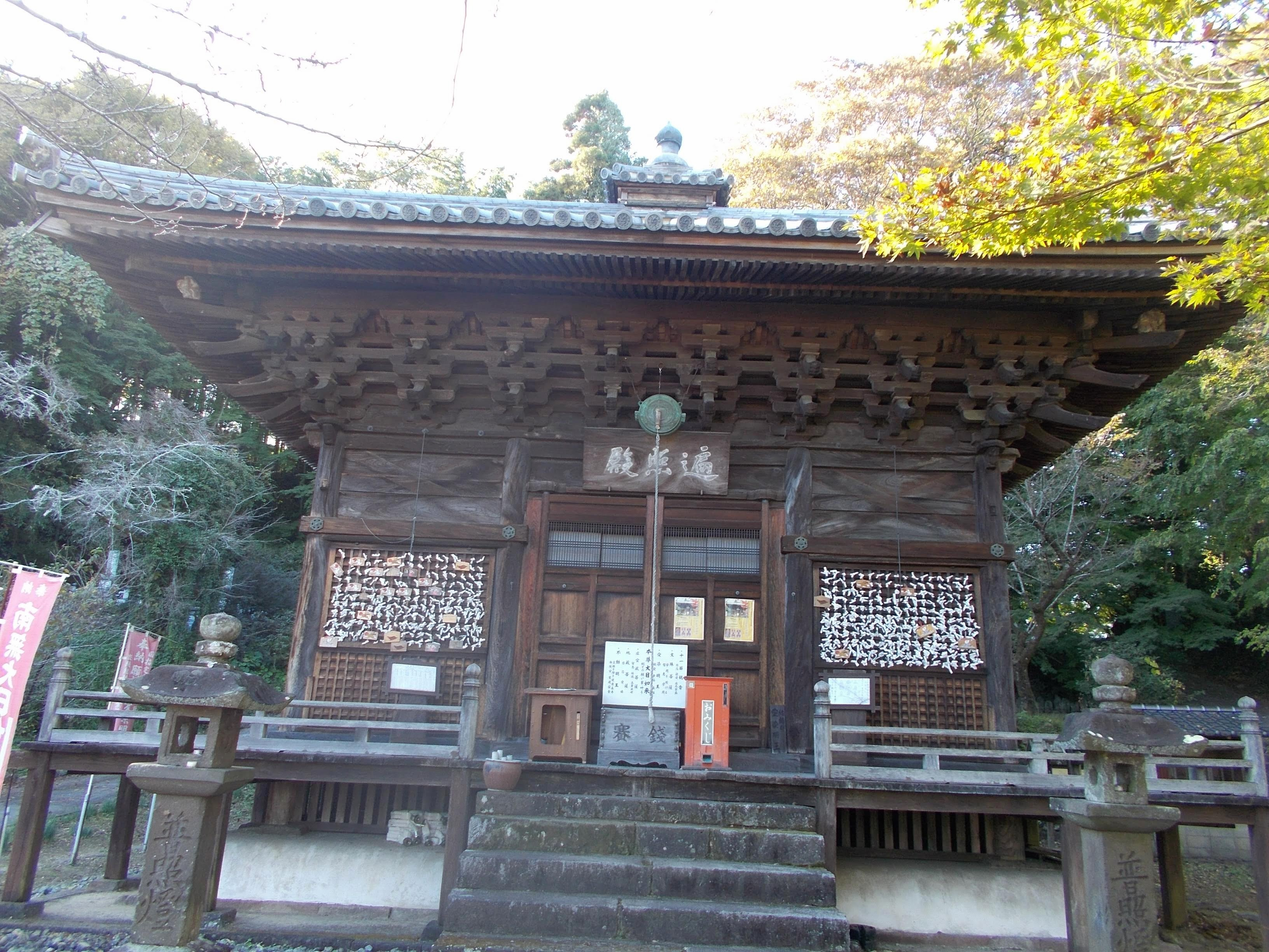 Aizendo Henshoden is a temple in Taketa, Oita, Japan. It has been designated for the Important Cultural Properties of Japan by the Government.